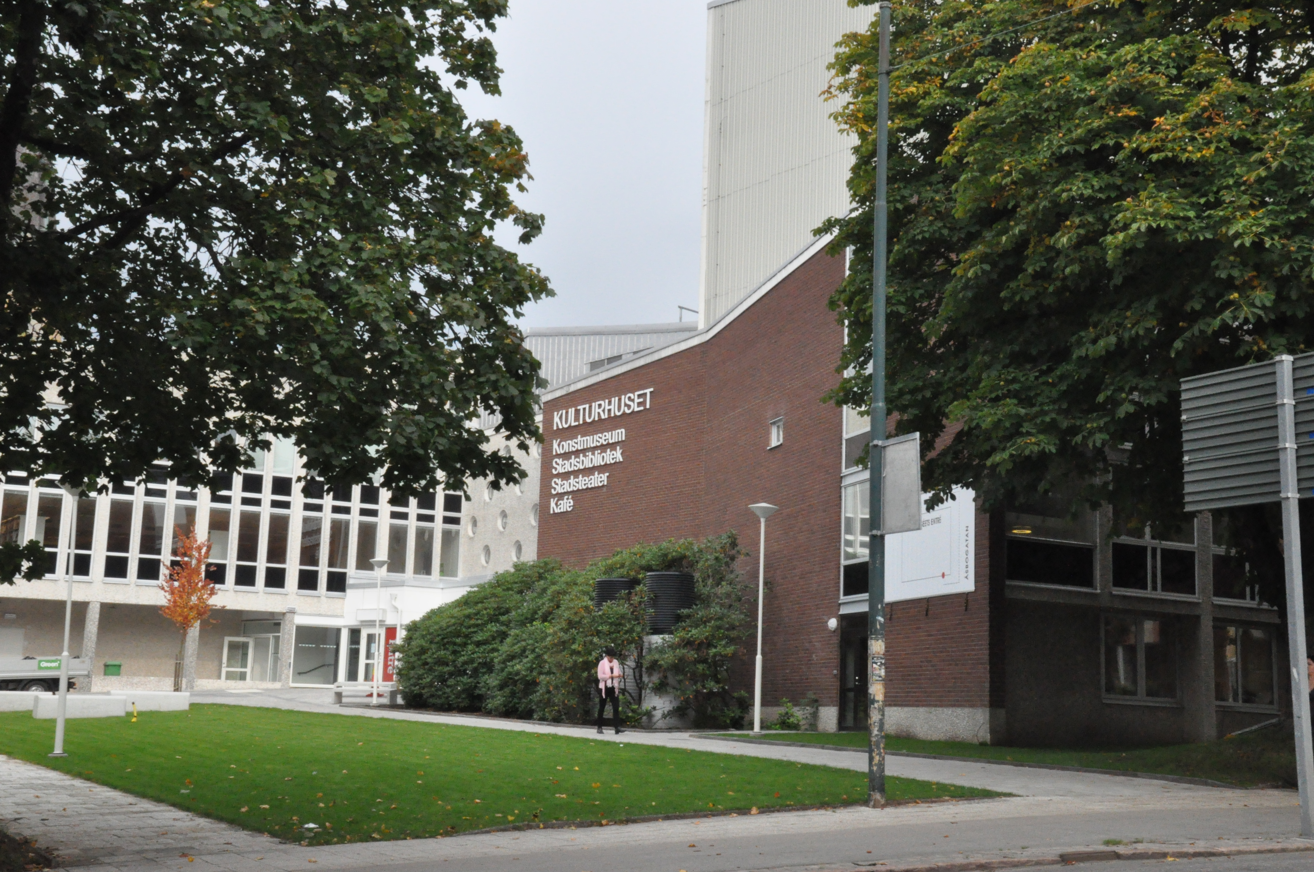 Kulturhuset i Borås september 2011